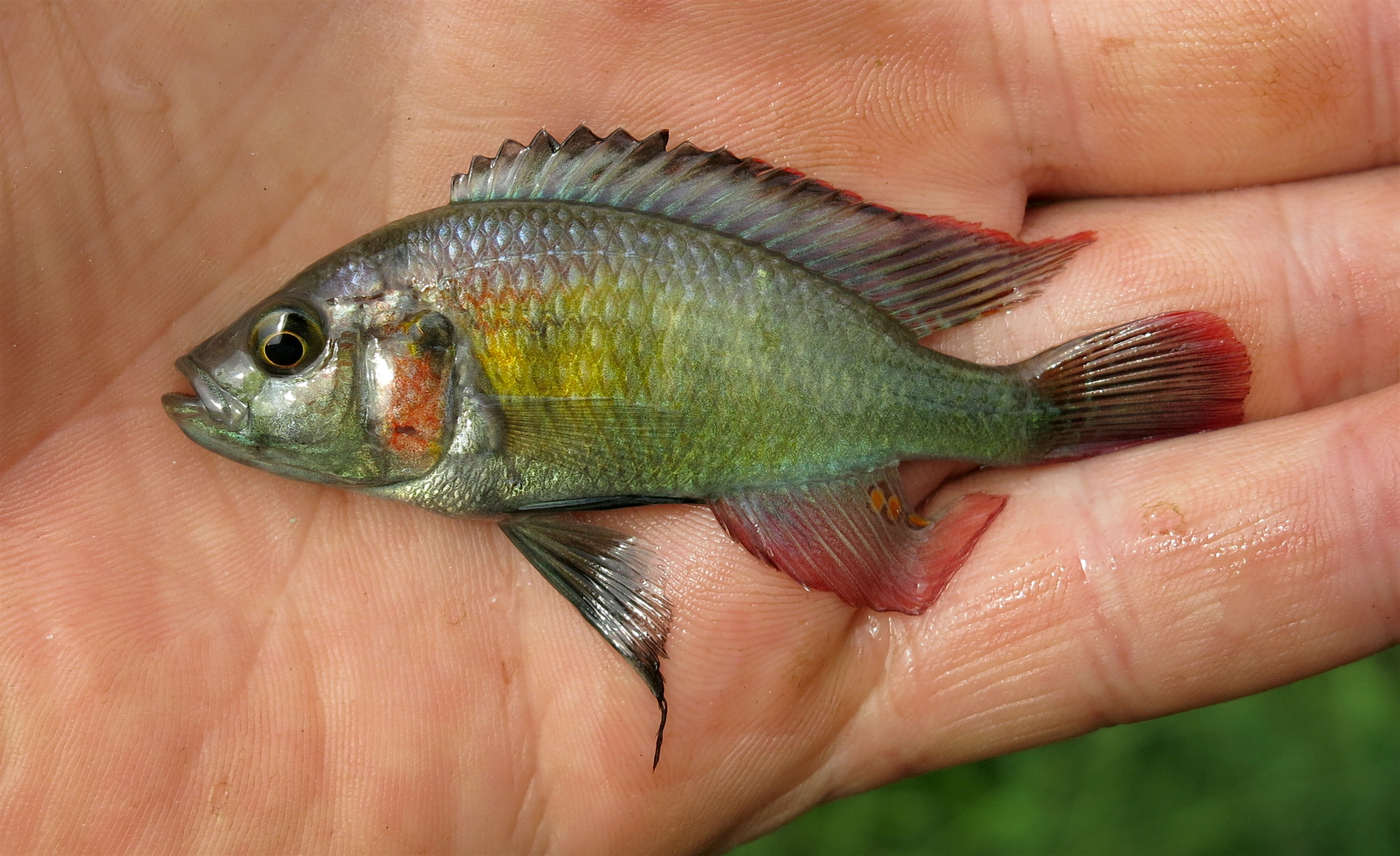 A male A. stappersi caught at Gatumba, Burundi